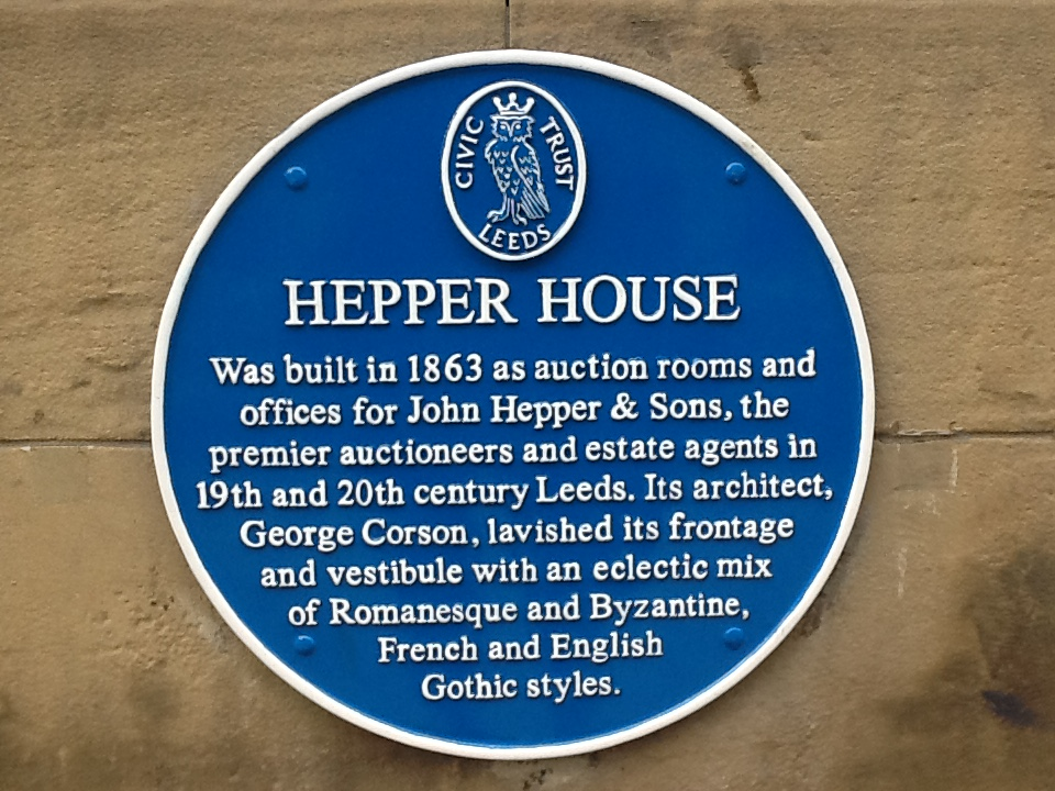 Unveiled on Tuesday 13 September 2016 - this is the 159 Blue Plaque unveiled by Leeds Civic Trust. It commemorates George Corson's Hepper House.